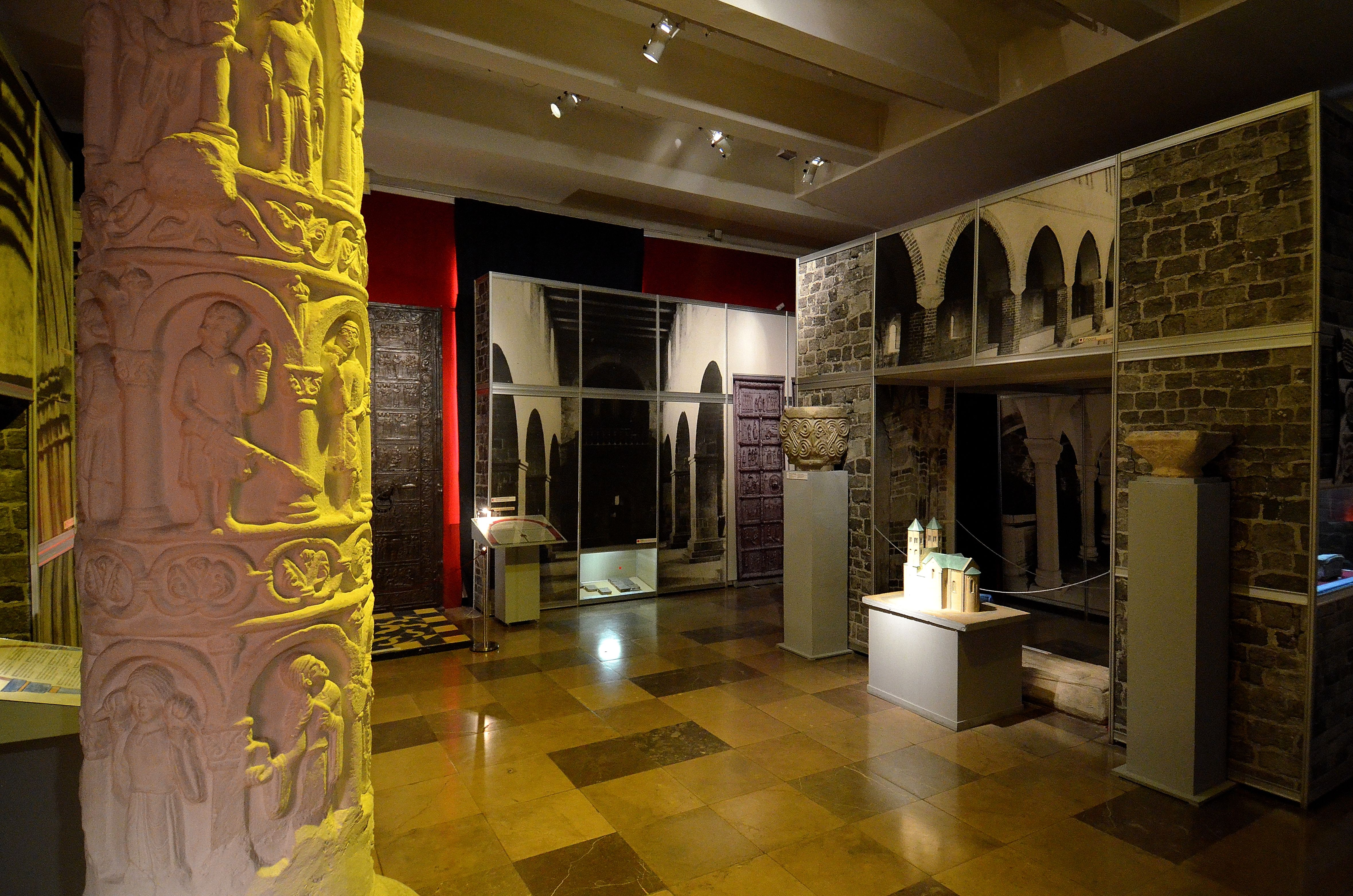 Exhibition at the State Archeological Museum in Warsaw